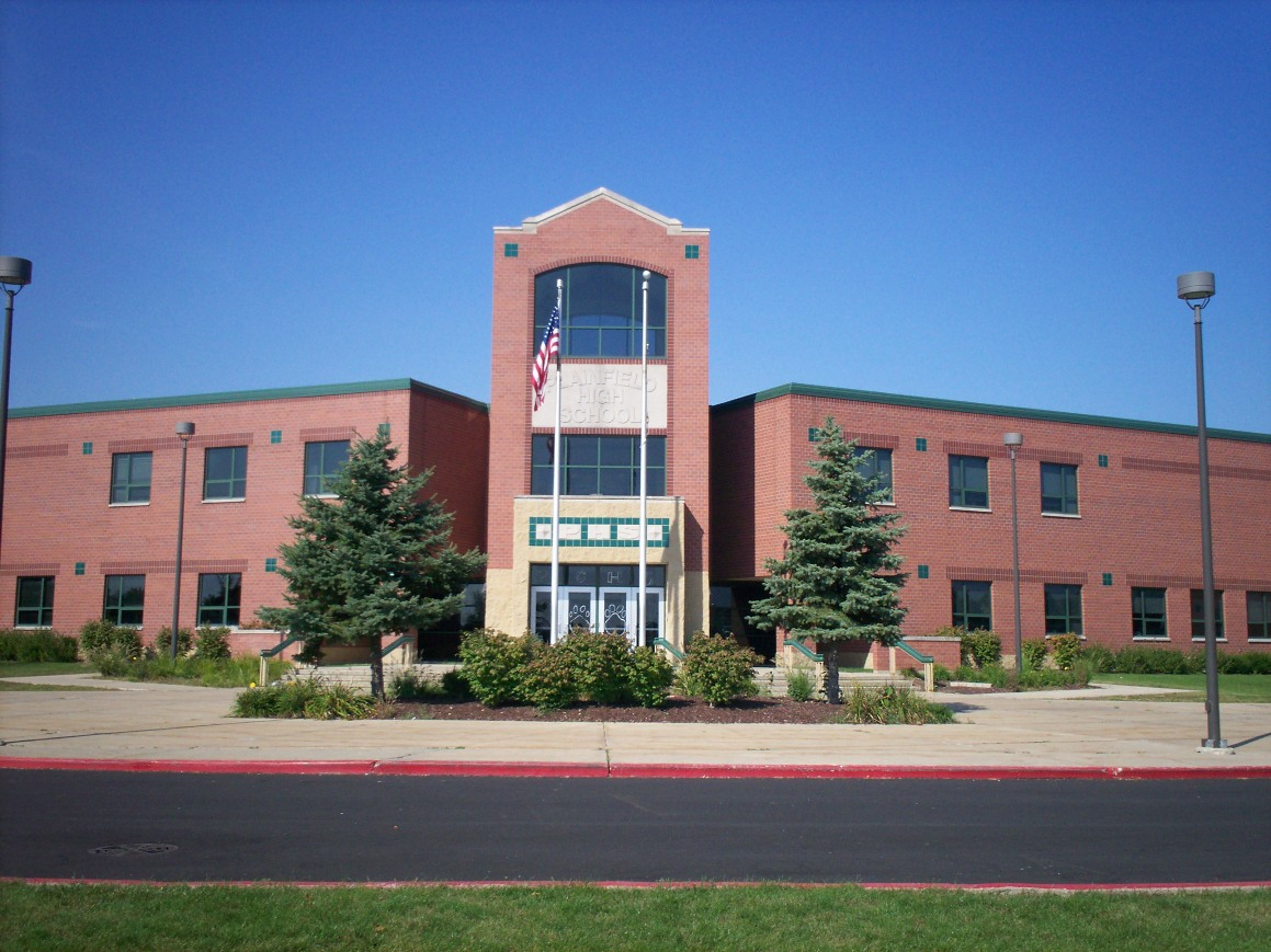 Plainfield High School Central Campus (sometimes known as Plainfield Central High School), Plainfield, Illinois